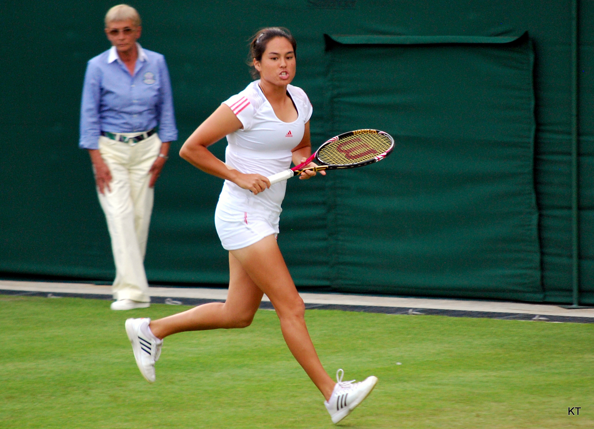 Jamie Lee Hampton during her first round match with Daniela Hantuchova Jamie won 6-4, 7-6, but was beaten by Heather Watson in the next round. Day 1 of Wimbledon 2012.